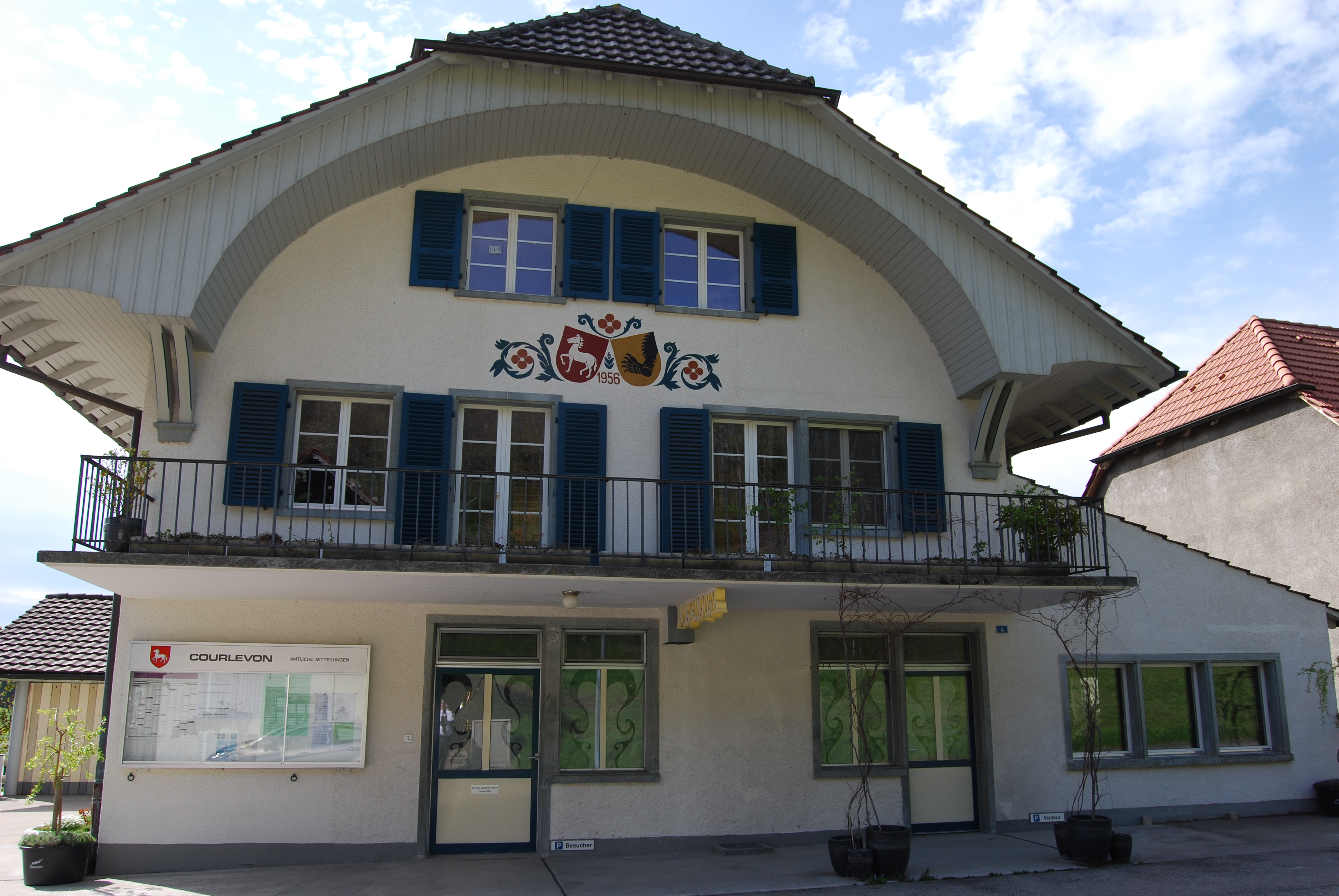 Courlevon, canton of Fribourg, SwitzerlandEsperanto: Courlevon, Kantono Friburgo, Svislando